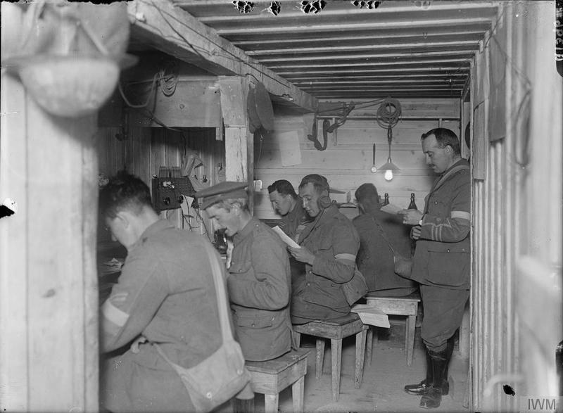 The Battle of the Somme, July-november 1916 Royal Engineers signal exchange in a captured German dug-out underneath Fricourt Chateau, September 1916. Note extended clips of ammunition - probably for use with extended box magazine of Gewehr 98 Mauser rifle - on electrical equipment in the background.